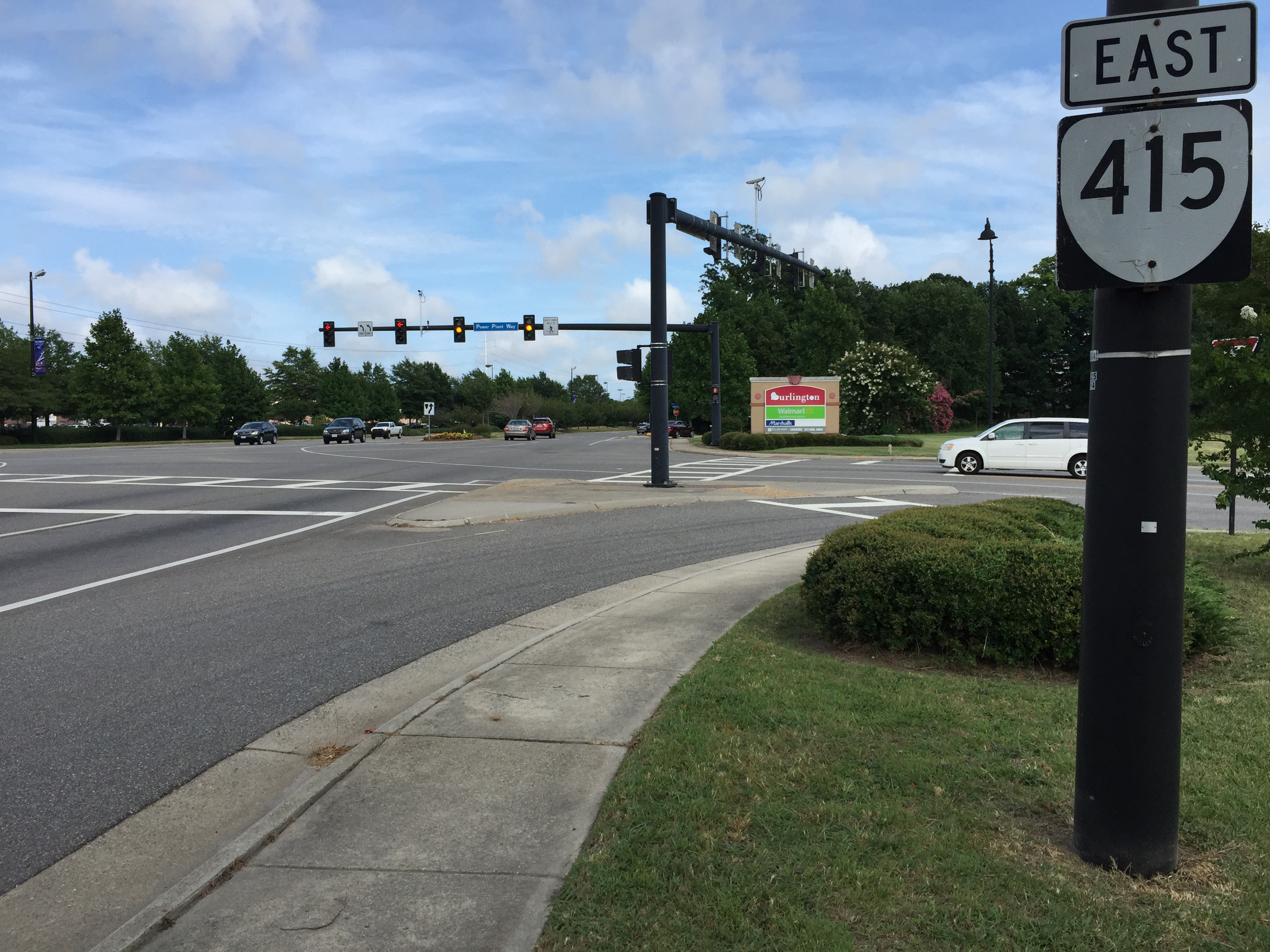 View east along Virginia State Route 415 (Power Plant Parkway) at Power Plant Way in Hampton, Virginia